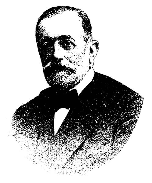 Francisco Terán Morales